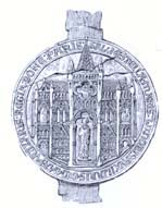 Ancient seal of the Abbey is now public domain